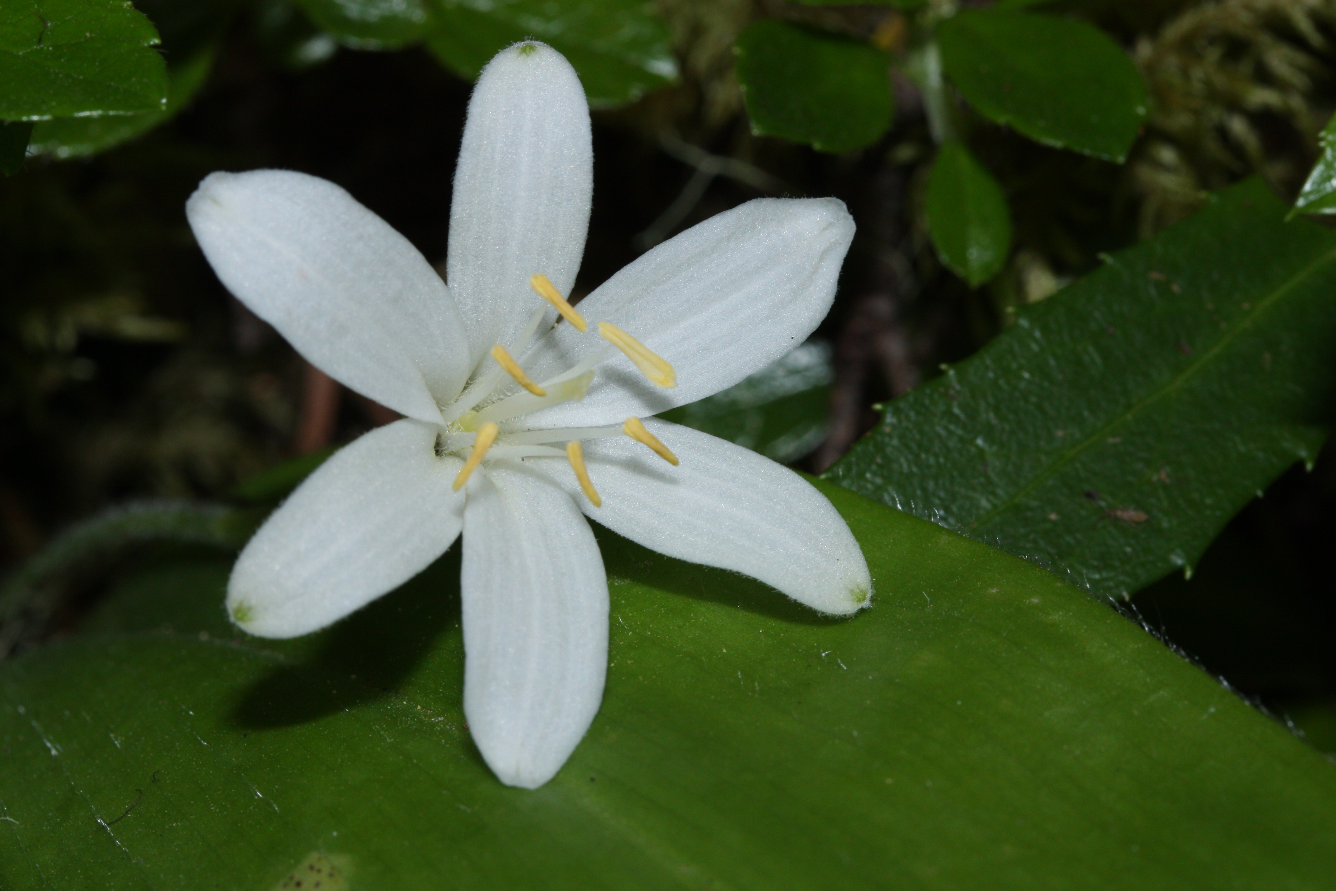 Queen's Cup, Bride's-bonnet